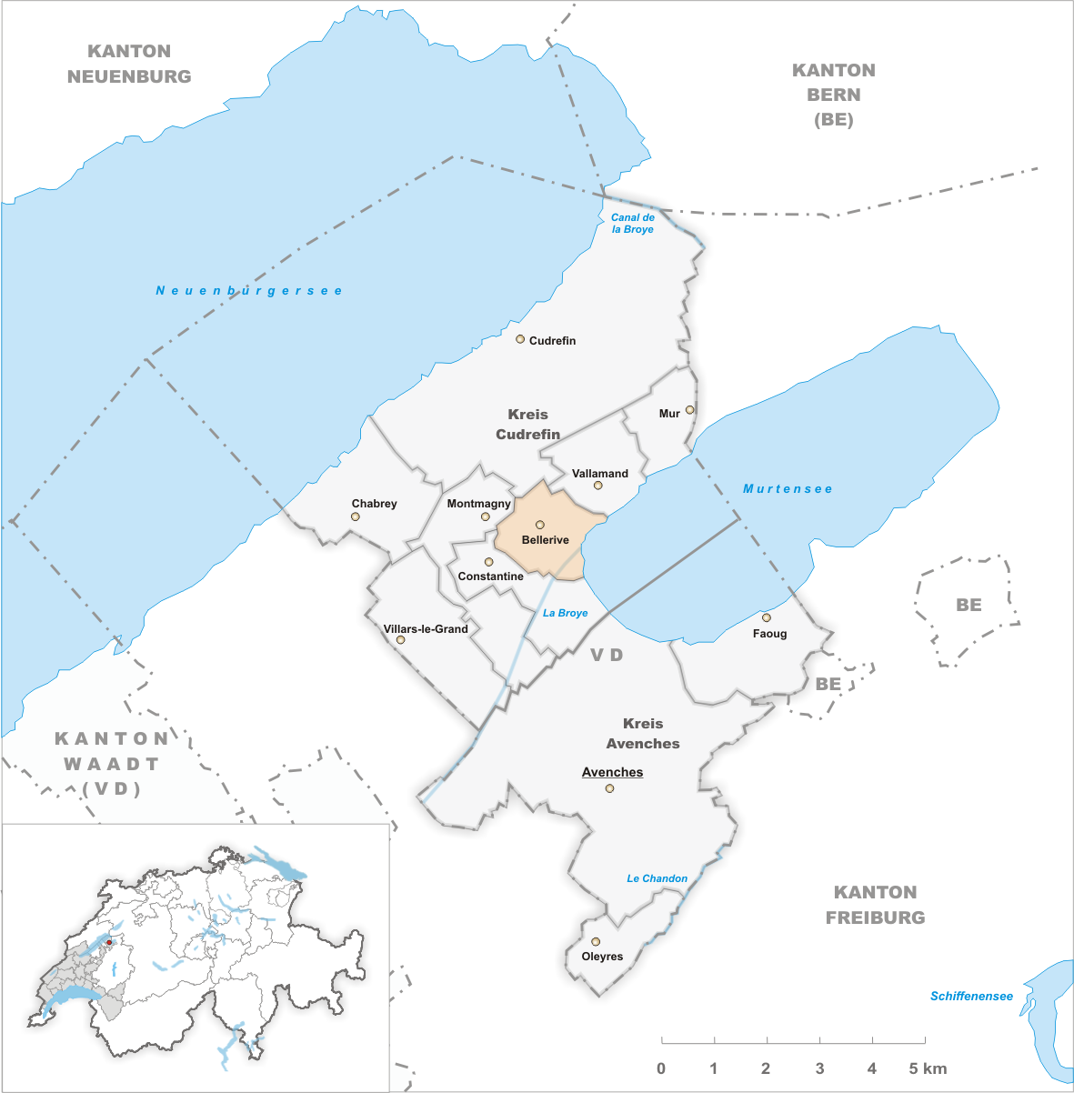 Municipality Bellerive